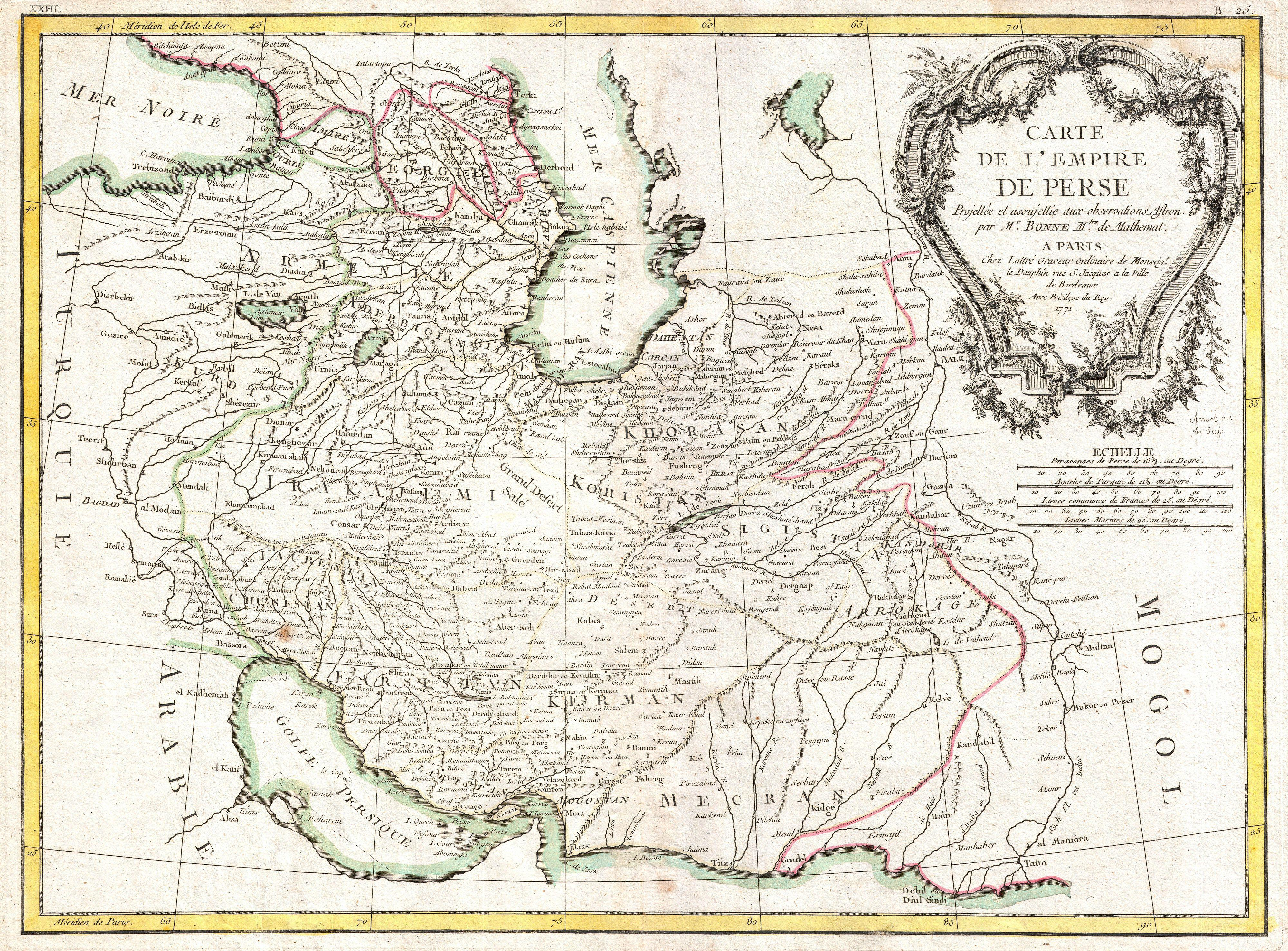 A beautiful example of Rigobert Bonne's 1771 decorative map of the Persia. Covers from the Black Sea south to the Persian Gulf and east past the Caspian Sa to the Indus Valley. Includes the modern day nations of Iran, Iraq, Kuwait, Afghanistan, Georgia, Armenia, Azerbaijan, with parts of adjacent Turkey, Saudi Arabia, and Pakistan. Names numerous tribal areas, villages, cities, deserts, caravan routes, and river systems. A large decorative title cartouche bearing garlands appears in the upper right hand quadrant. A fine map of the region. Drawn by R. Bonne in 1771 for issue as plate no. B 25 in Jean Lattre's 1776 issue of the Atlas Moderne.